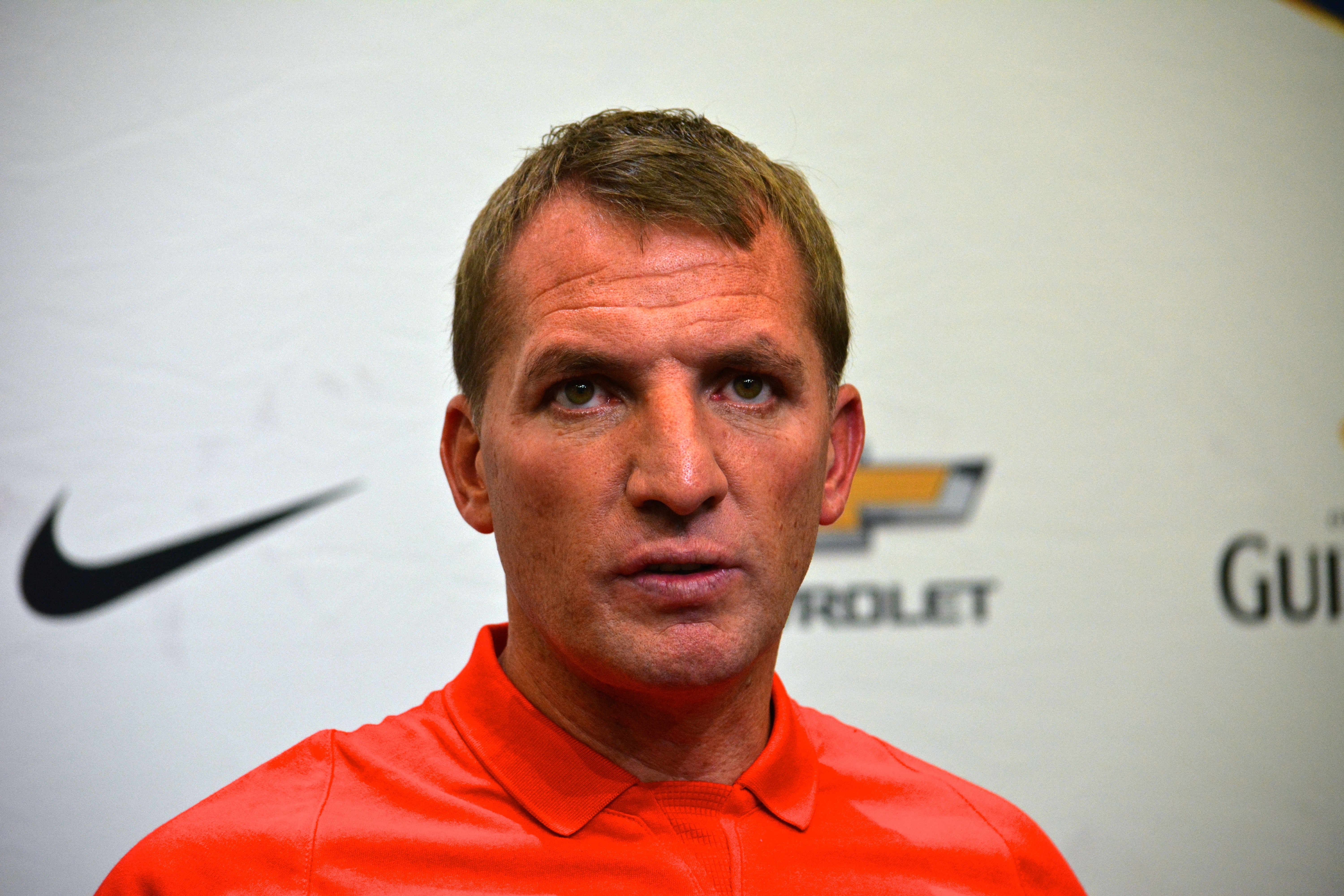 Brendan Rodgers speaking on a press conference before a friendly match in Guiness Champions Cup in August 2014.